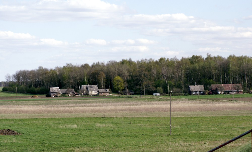 Beržynė, Šiauliai district, Lithuania